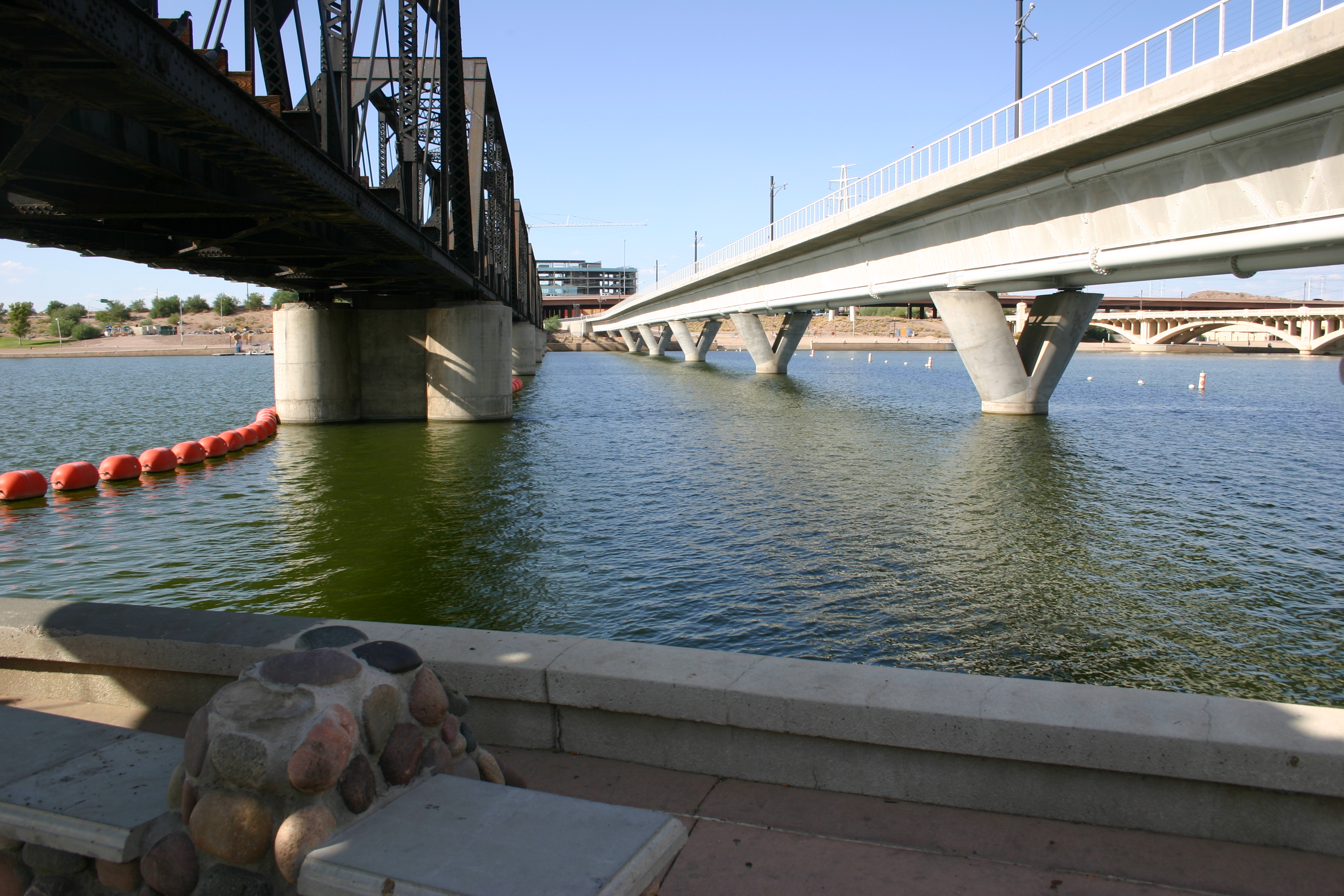 Photo of the railroad bridge and METRO Light Rail bridge over Tempe Town Lake looking north on the south shore in Tempe Arizona